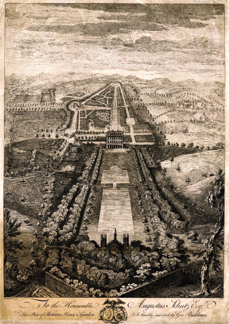 Shotover House and Garden, by George Bickham the Younger, 1750. Lettered below the image with the title, incorporated into a dedication from the engraver to 'Augustus Schutz Esqr.' around a crest and 'Bickham de. & sc. / 1750'. Annotated in pencil on the verso 'Shotover Oxfordshire / Residence of General Tyrell in 1738. in whose possession is a portrait of ArchBishop Usher Engraving by Vertue of [two illegible words]